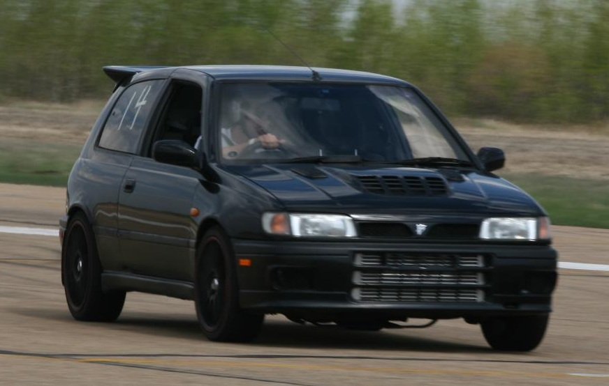 A Nissan Sunny GTI-R competing in an autocross event